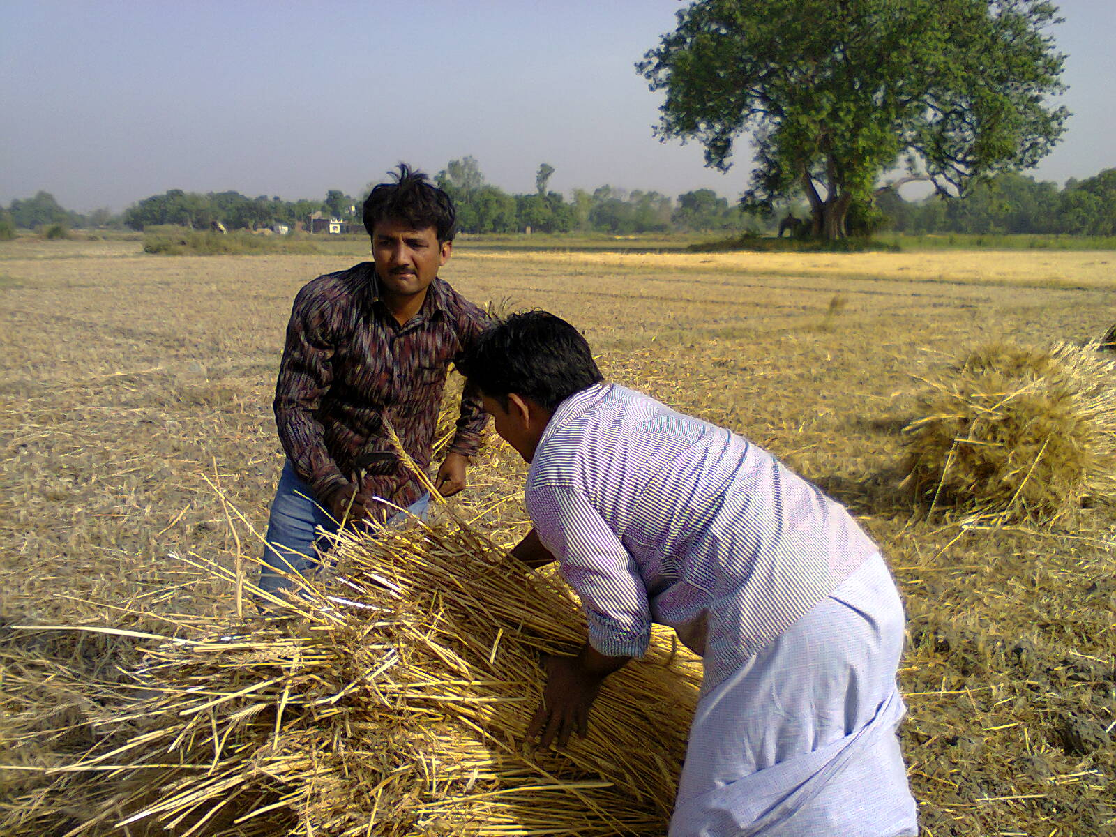 Farmers making binding the hay bundels